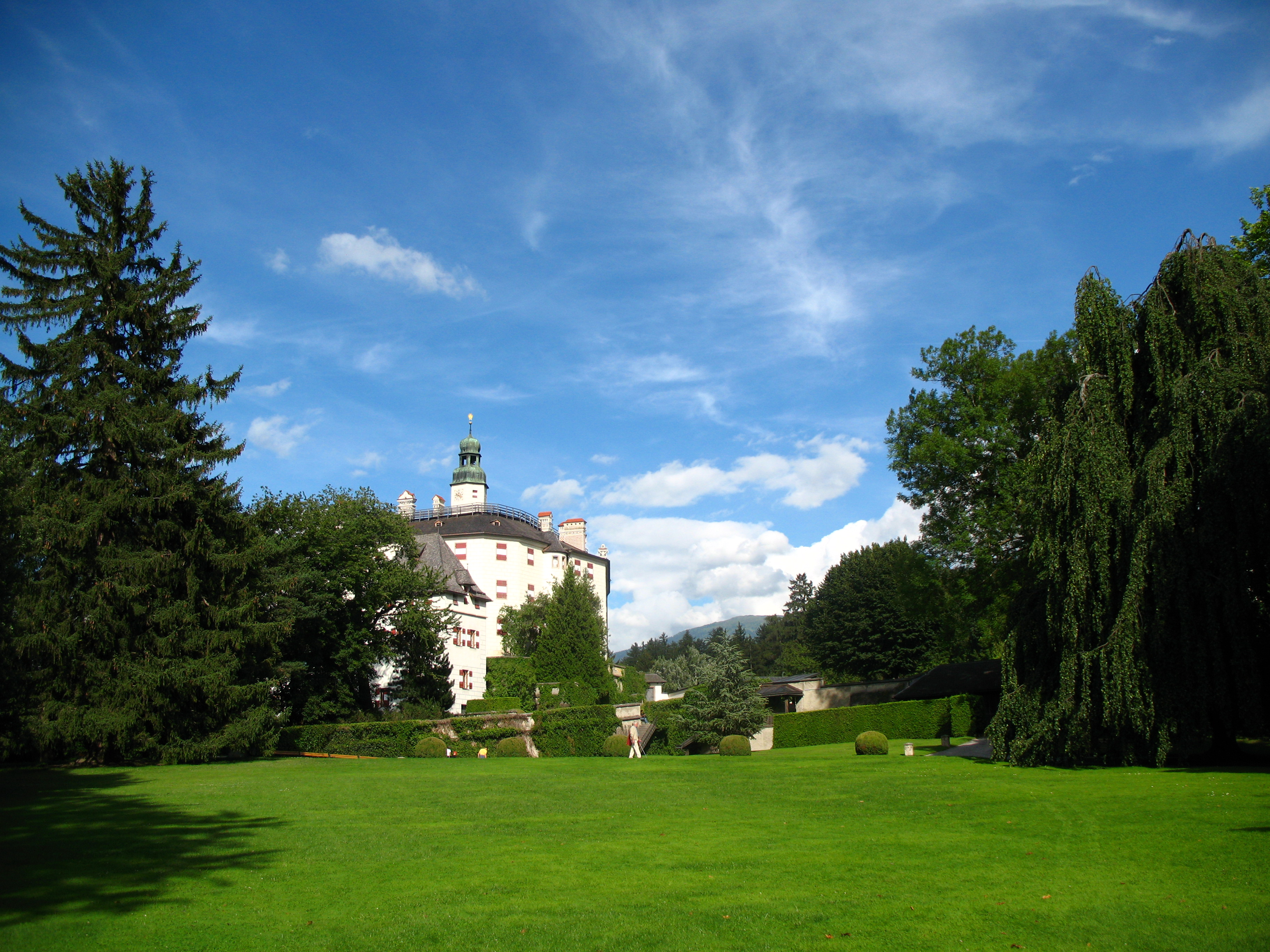 Ambras Castle, Innsbruck, Austria